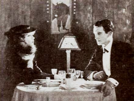 Still from the American drama film Princess Virtue (1917) with Mae Murray and Wheeler Oakman, on page 23 of the October 27, 1917 Exhhibitors Herald.